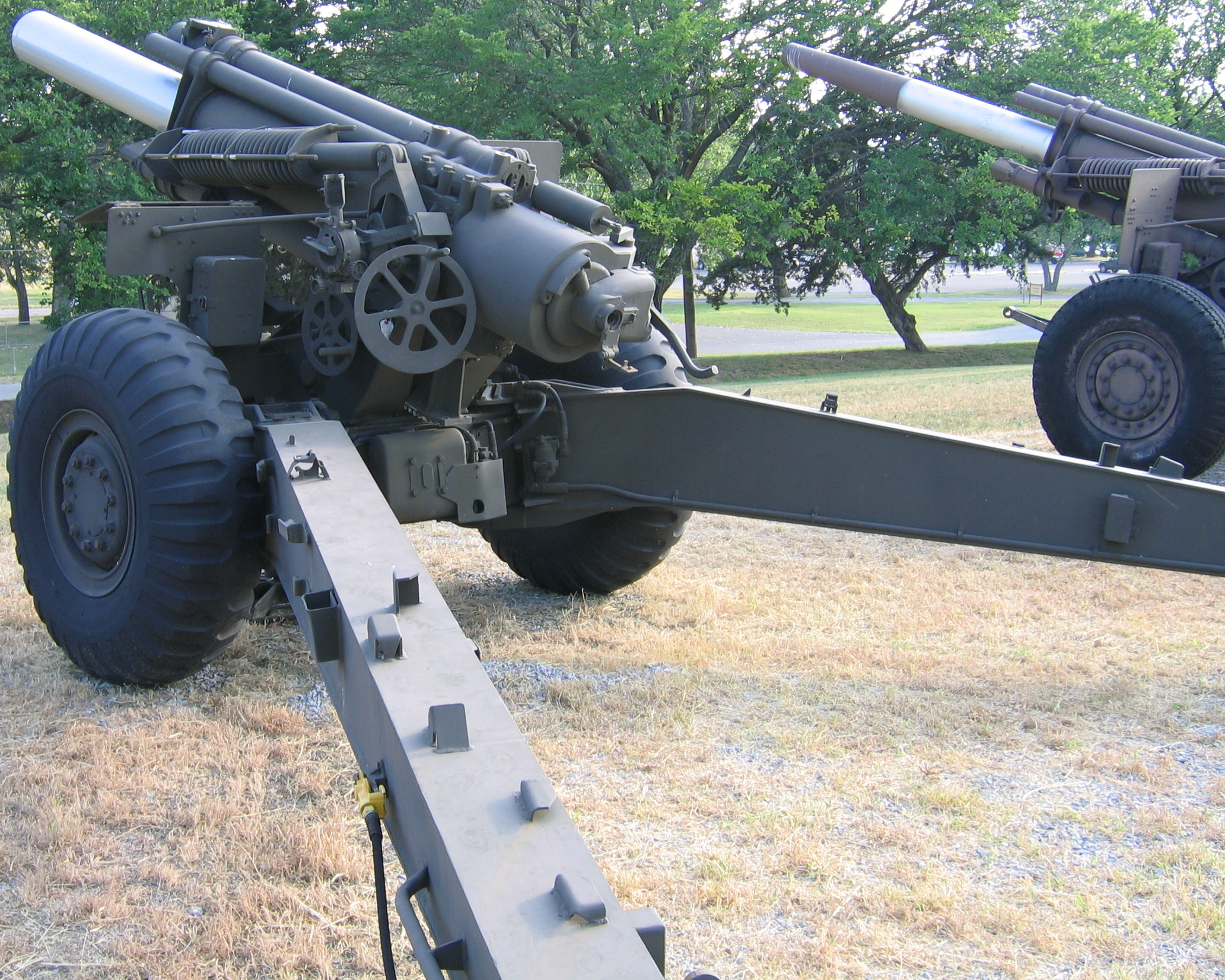 A 155 mm Howitzer M-114 at U.S. Army Field Artillery Museum, Ft. Sill, Oklahoma